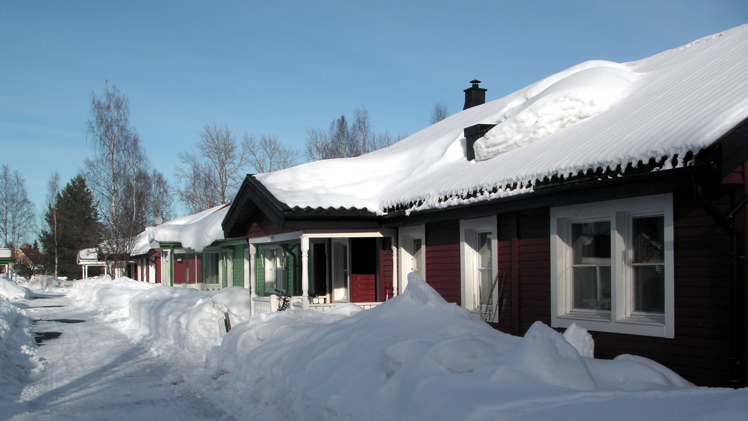 Terraced houses on "Rödäng", Umeå; typical housing for this area.